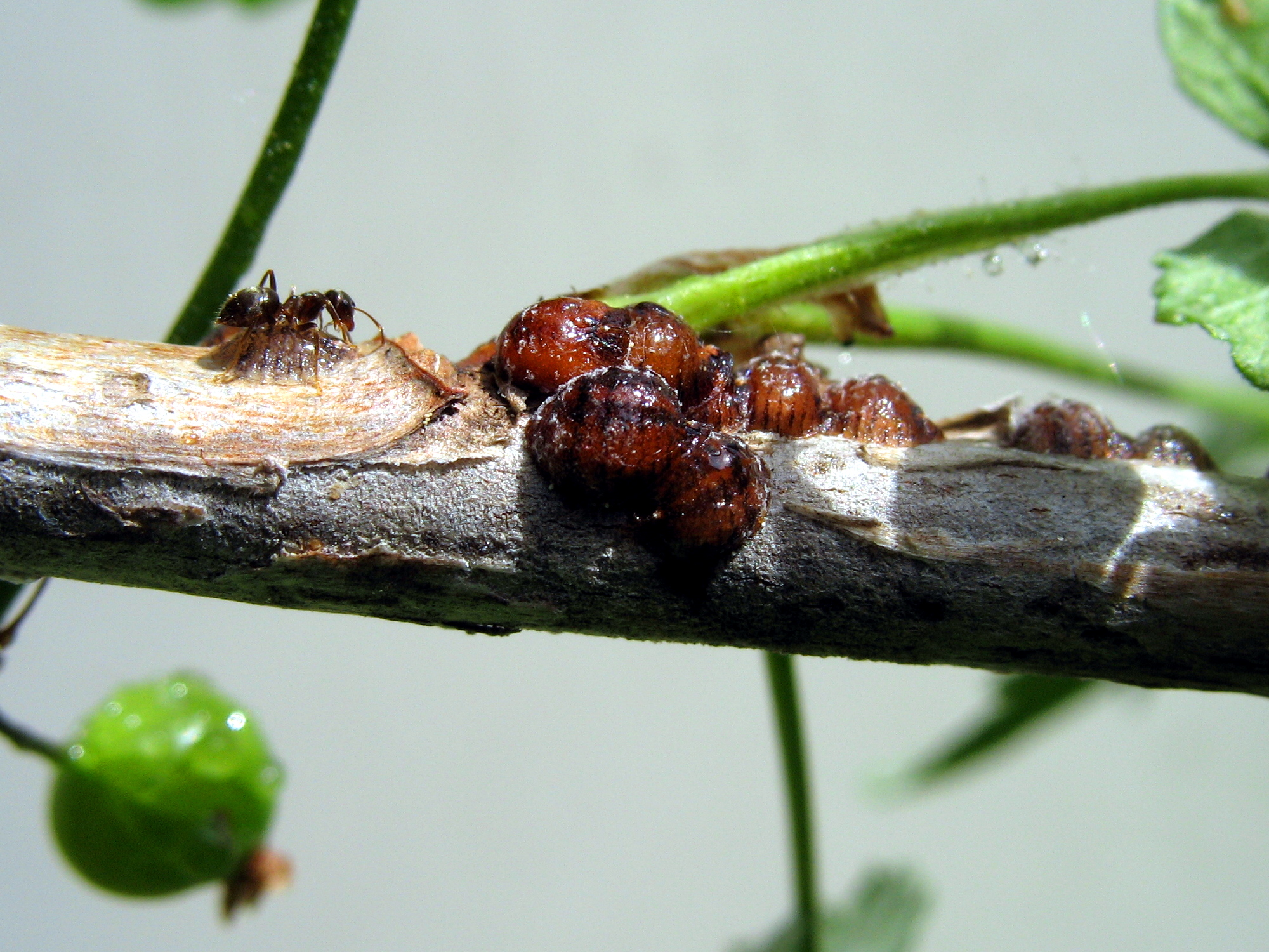 Scale insects (possibly Fam. Coccidae) on red currant twig; one larvae being "milked" by an ant.